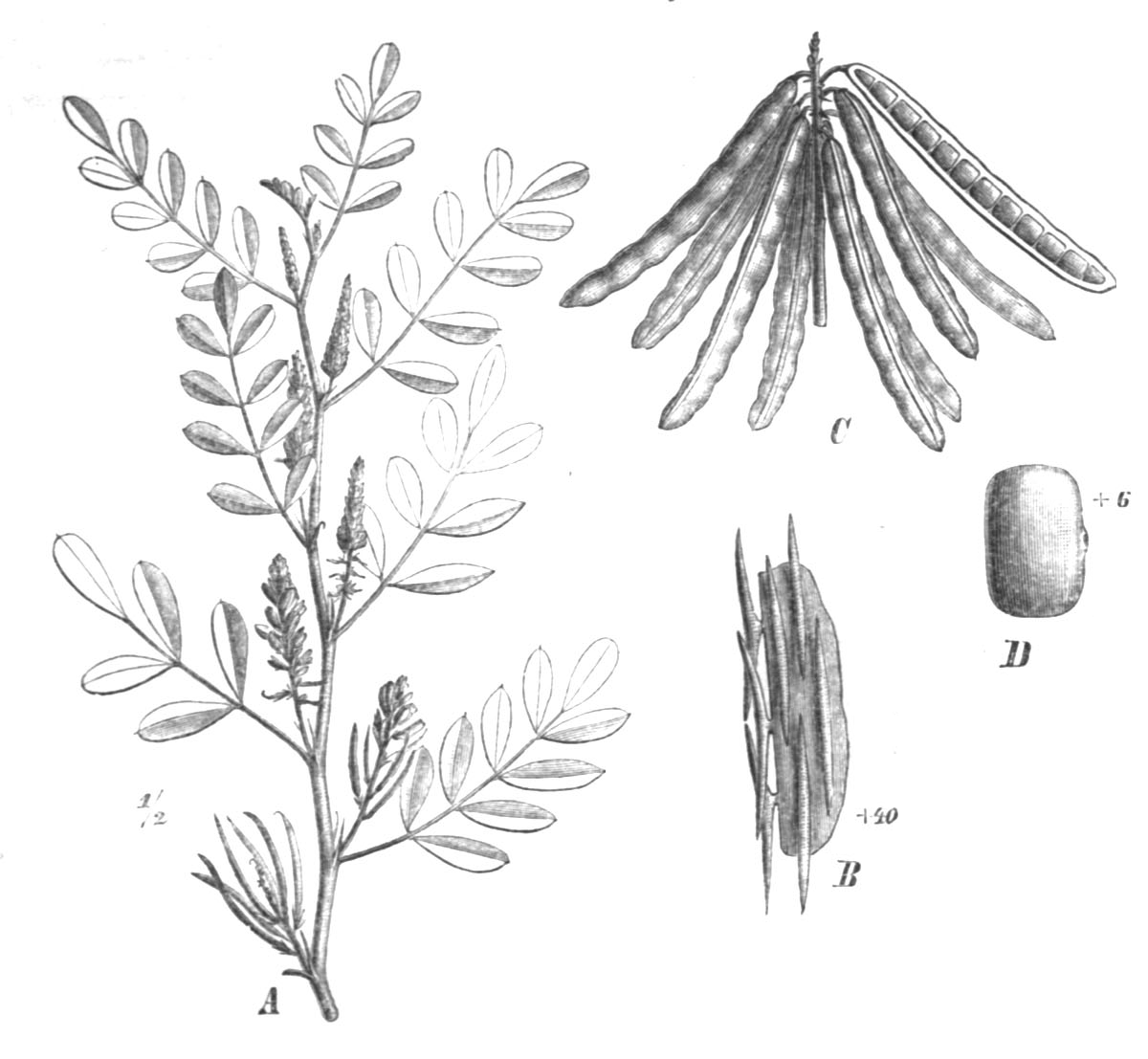 Illustration from book